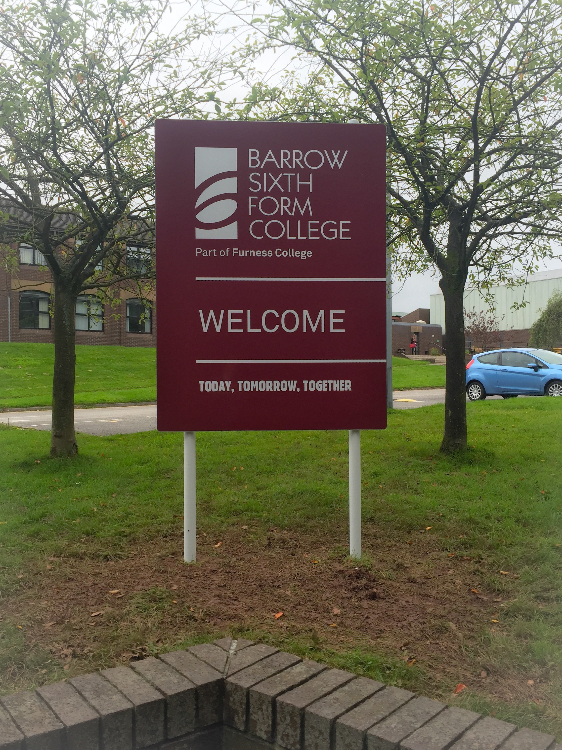 Own photo of entrance to Barrow Sixth Form College